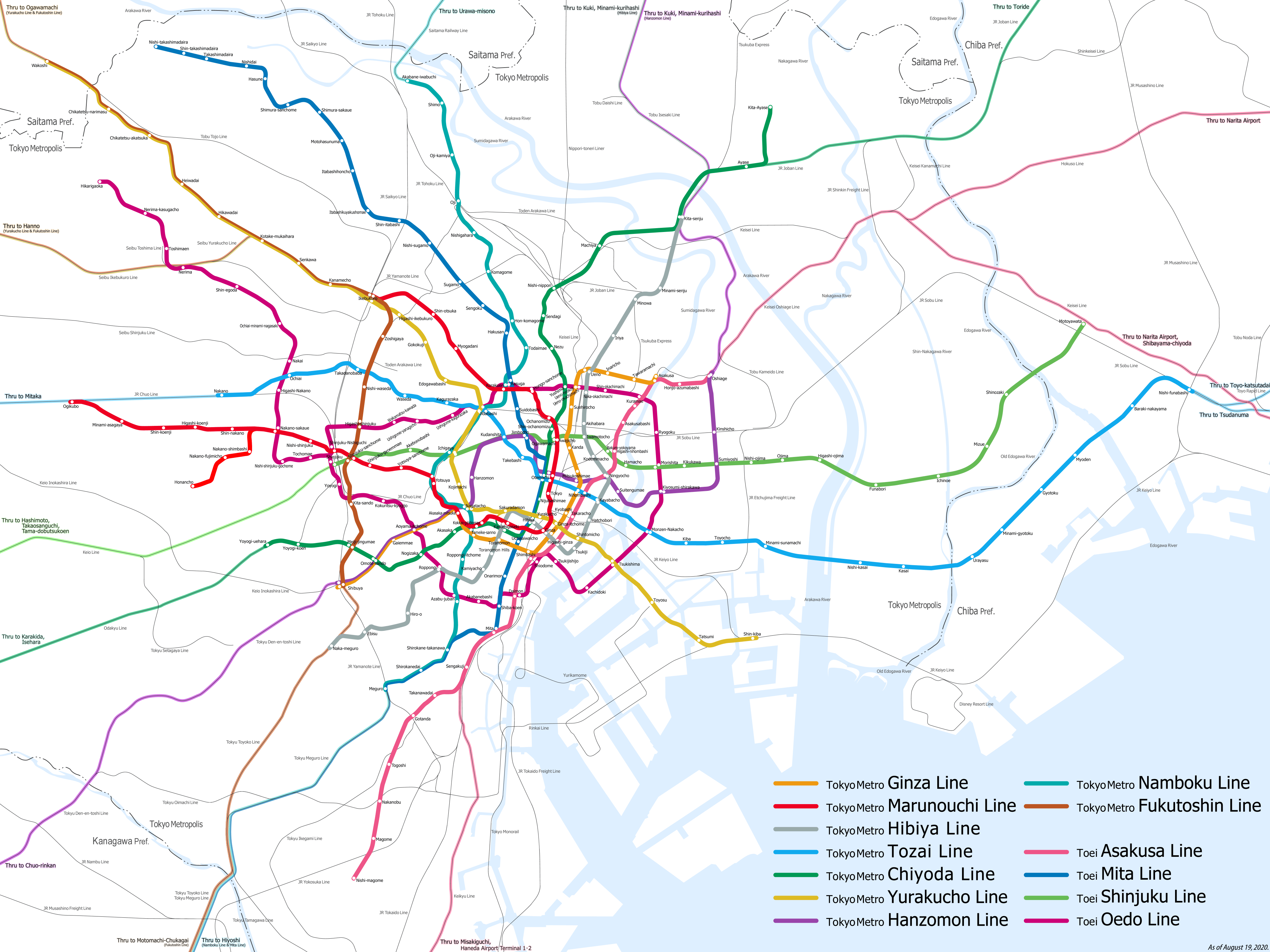 Map of Tokyo Metro lines and Toei Subway lines. （As of August 2020）